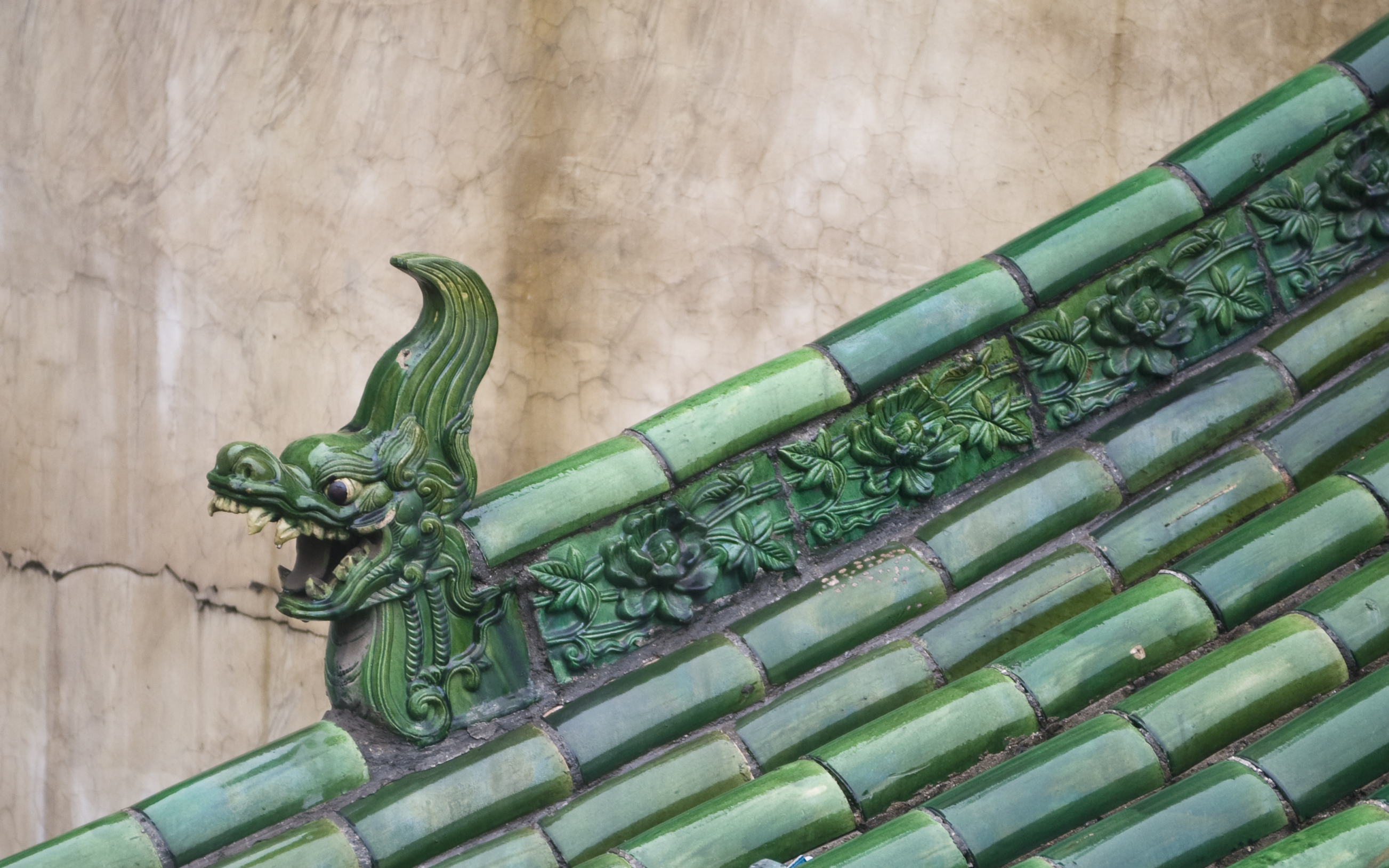 Happy dragon head on a green tiles roof crest, at the Chungyanggong Museum, Taiyuan, Shanxi, Chine